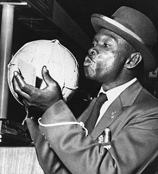 Brazil's masseur Mario Americo wore the game ball of the final as a war trophy in a string. Brazil won the final against Sweden 5-2.